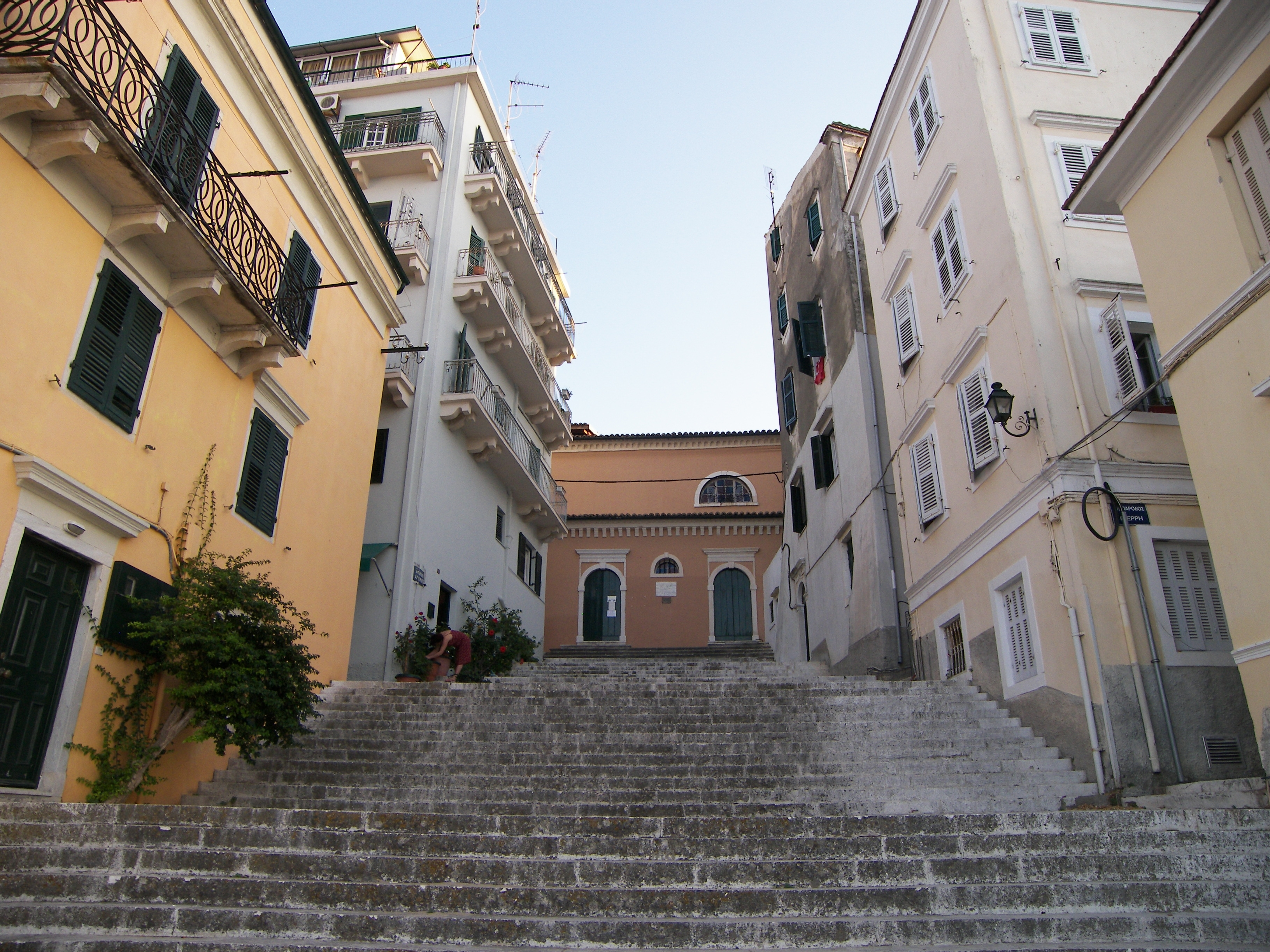 Filename